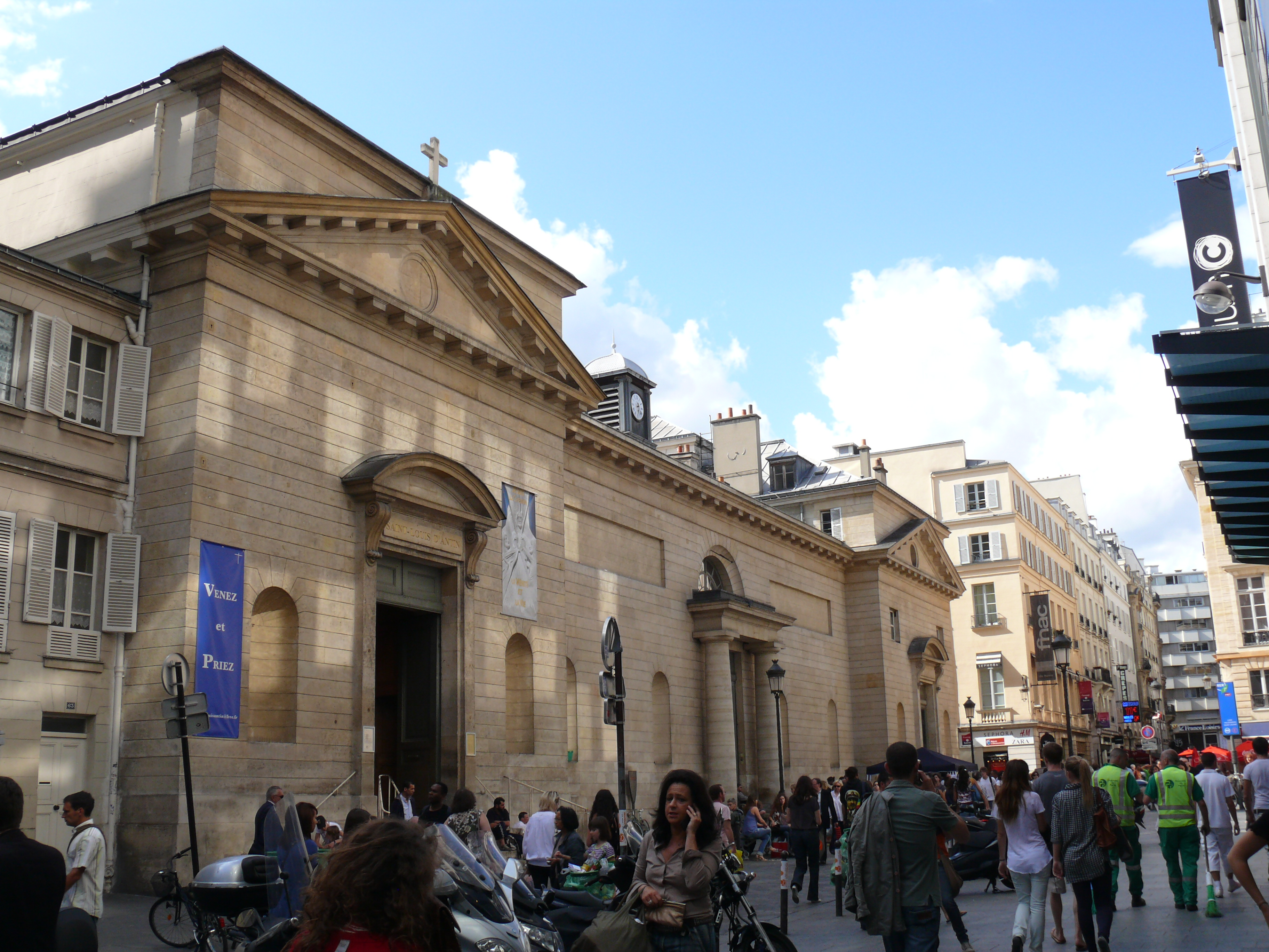 Saint-Louis-d'Antin's church in Paris (France)